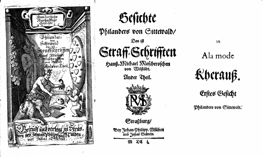 Frontispiece, title cover and title to Ala mode Kherauß, on of the satires included in Moscherosch, Johann Michael (1601-1669), Gesichte Philanders von Sittewald, Das ist Straff-Schrifften, 2. Theil (Straßburg: Mülbe, Städel, 1650).